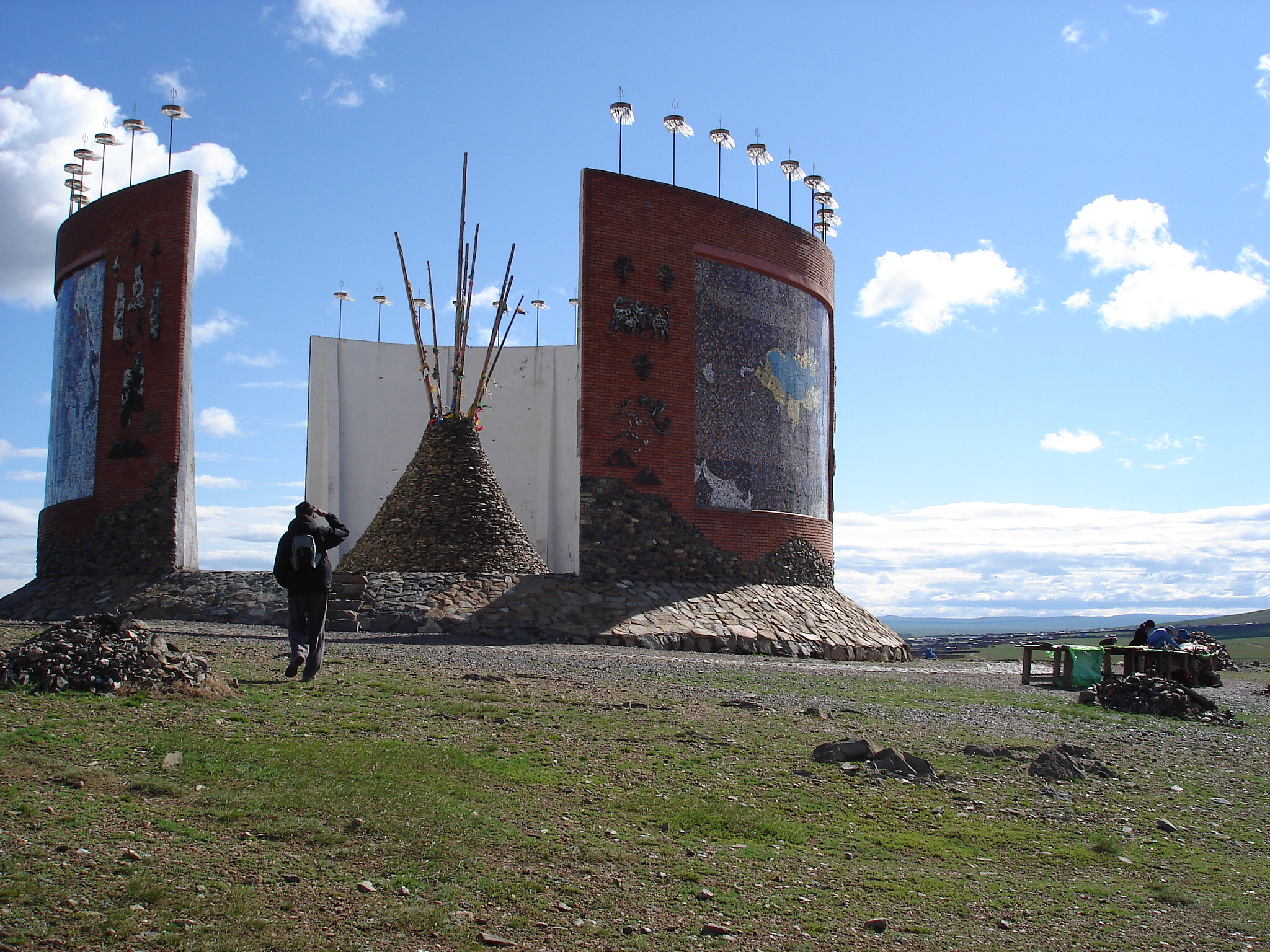 Mongol History Monument (Kharkhorin, Mongolia)